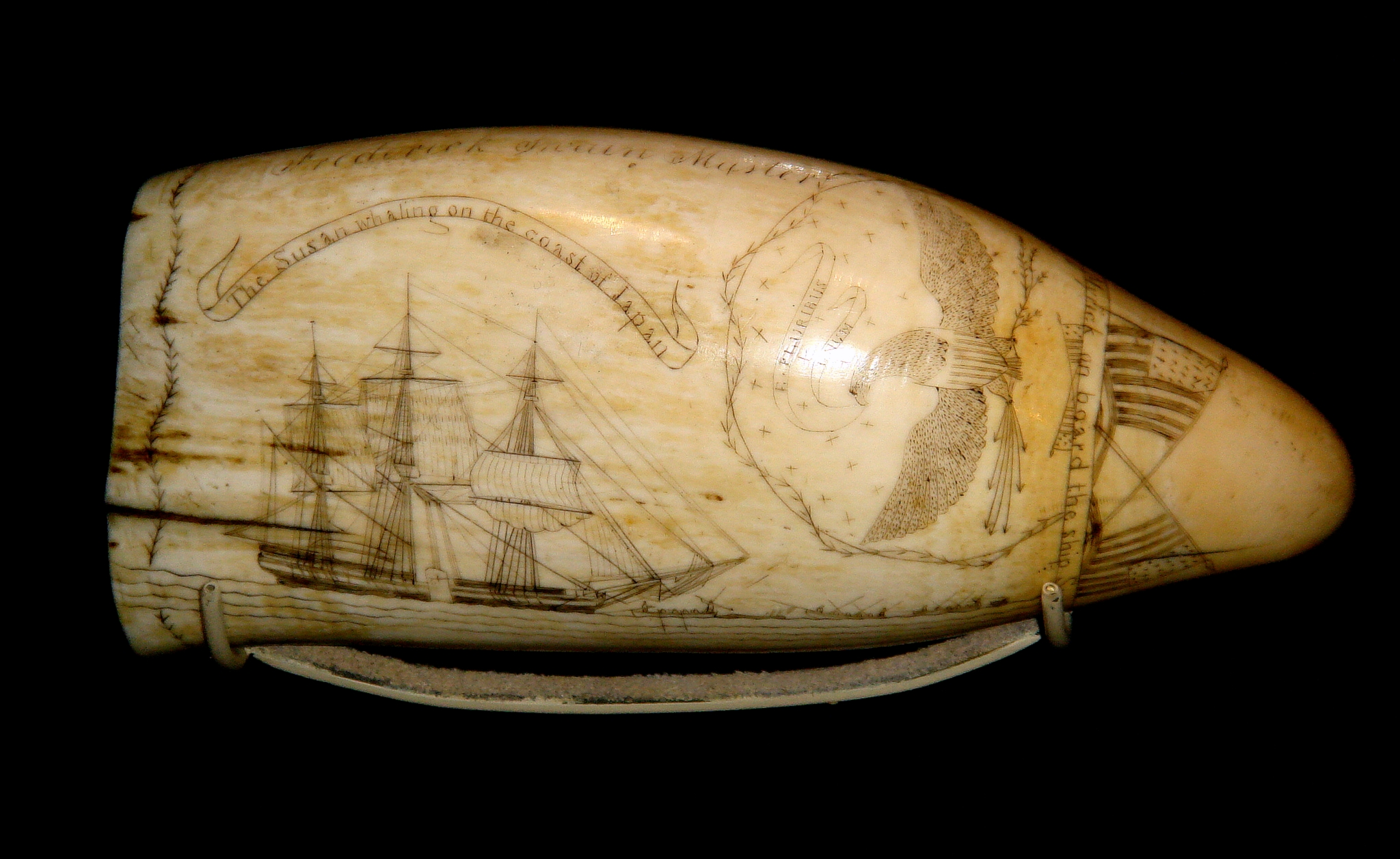 Frederick Myrick was one of Nantucket's most famous scrimshaw artists, and the first to sign his work. Born in 1805, Myrick went on at least three whaling voyages. His carved what may be the most famous whaling scrimshaw that depict American whaling. "Susan's Teeth" is a series of 22 scrimshaw creations that depict whalers off the coast of Japan (as in this photo) and Peru, ~1829. Myrick carved this piece from the whaleship "Susan of Nantucket", the whaler shown is the "Ann of London." He carved this scene for a customer, Mr. James Brown, who was on the "Ann of London." In 1997, a 'Susan's tooth' sold for $50,600 at a Nantucket auction. Myrick served aboard the "Susan" from 1826-1829, during which he made at least 44 exquisite scrimshaw carvings. That output was his entire artistic legacy. he never carved before or after his whaling voyages on the "Susan". Myrick married a 'Nantucketer', and later in life moved to western New York state where he died in 1862.